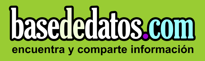 Base de datos logo.